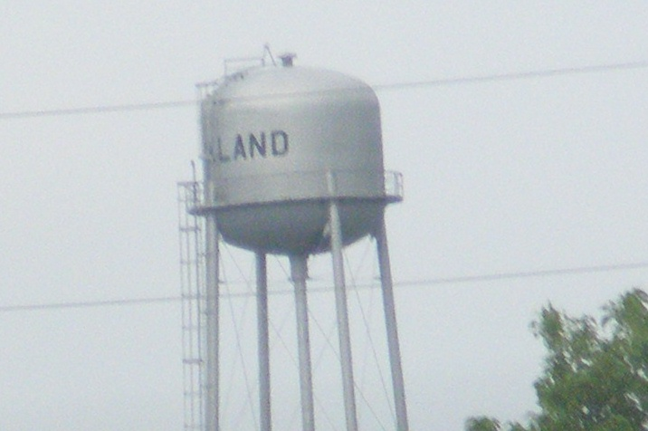 Rockland Tower